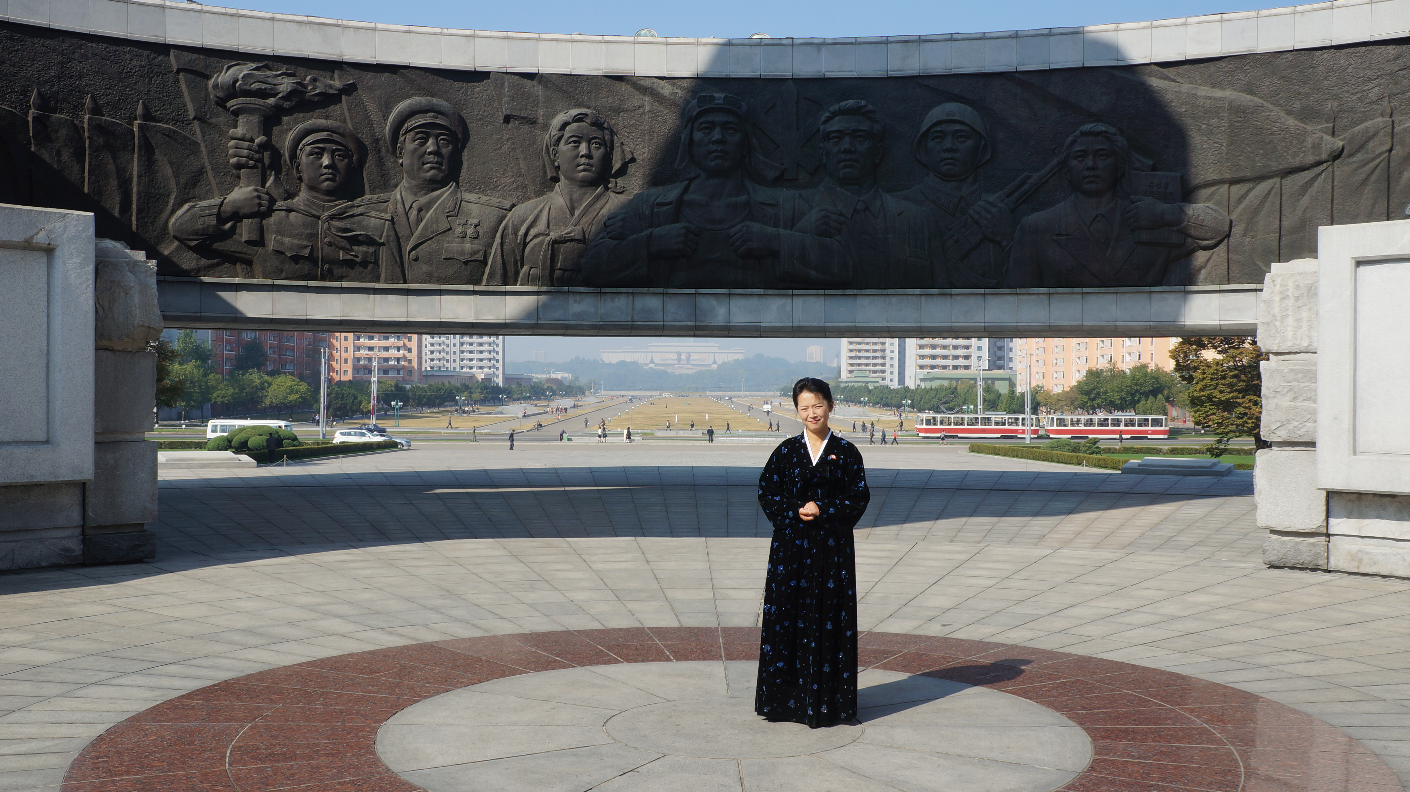 Local guide stands inside the "sun" representing the light the party shines on the nation